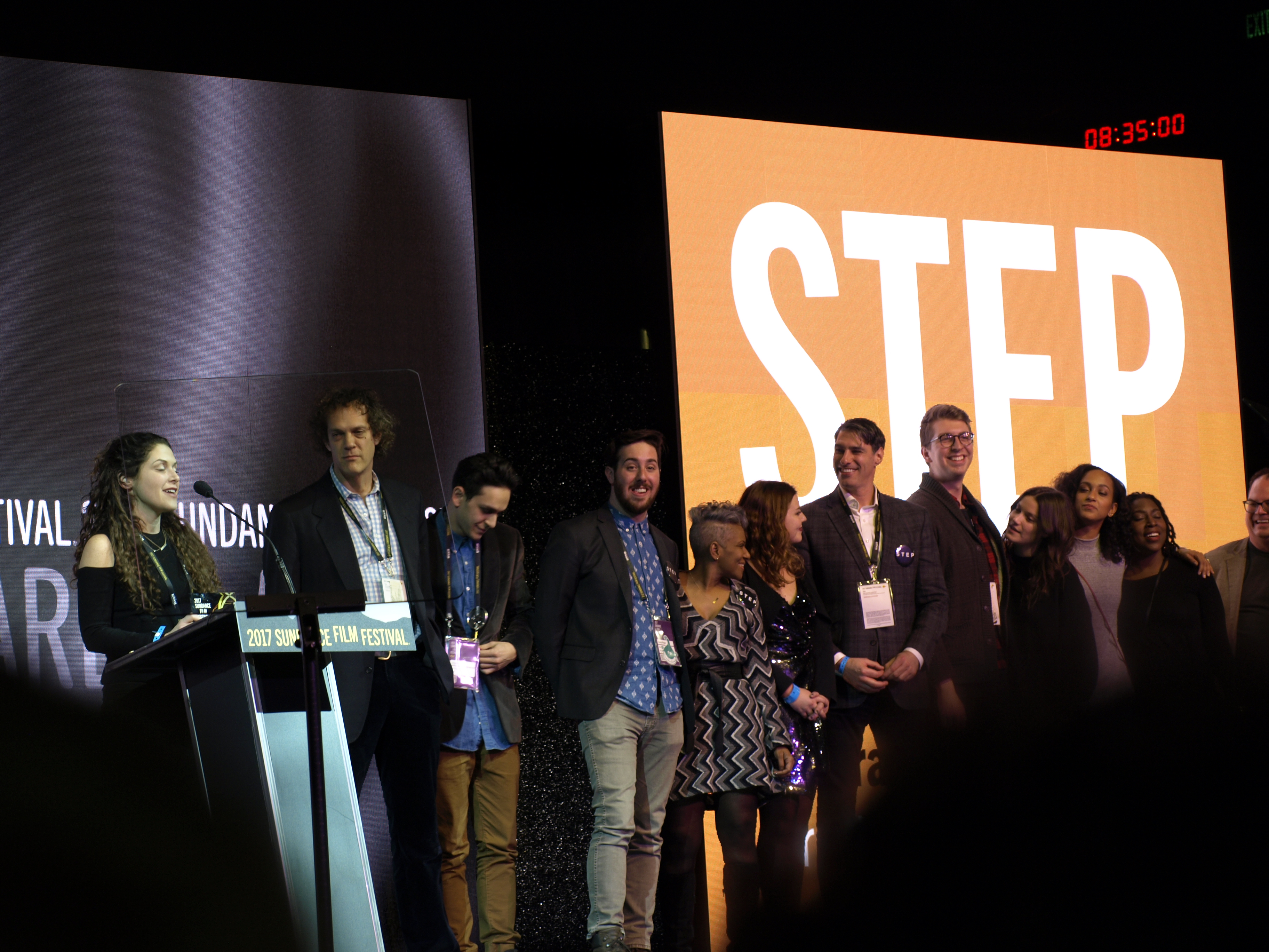 A U.S. Documentary Special Jury Award for Inspirational Filmmaking was presented to “Step” at Sundance 2017, Park City UT